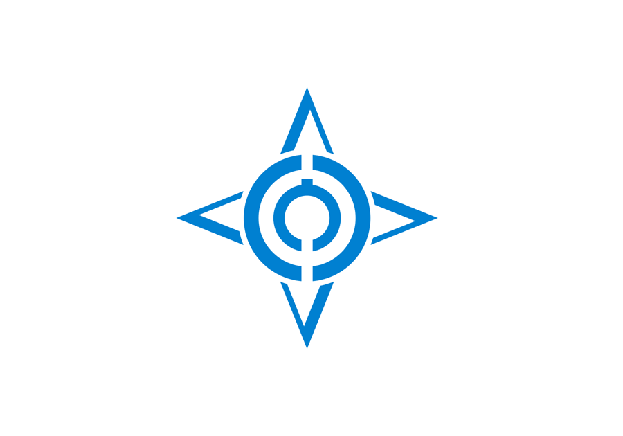 Flag of Hofu, Yamaguchi